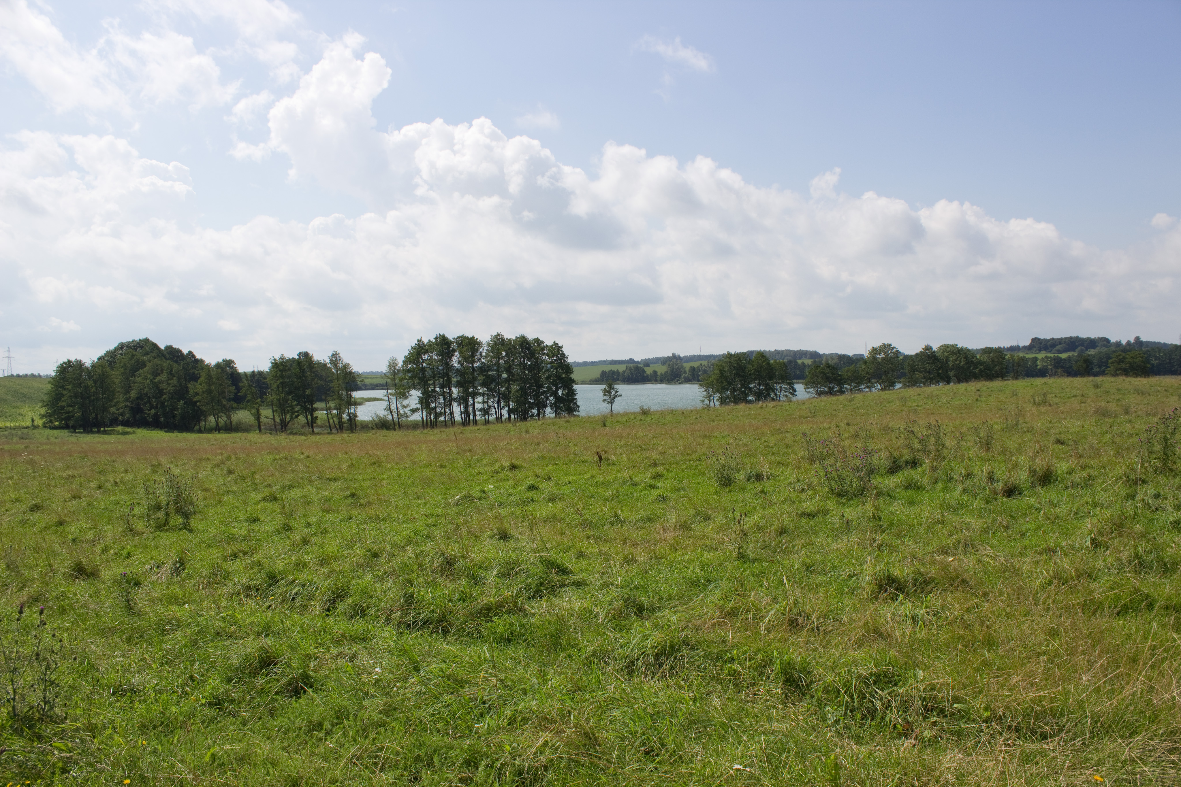 Rydwągi, gmina Mrągowo, powiat mrągowski, Warmian-Masurian Voivodeship